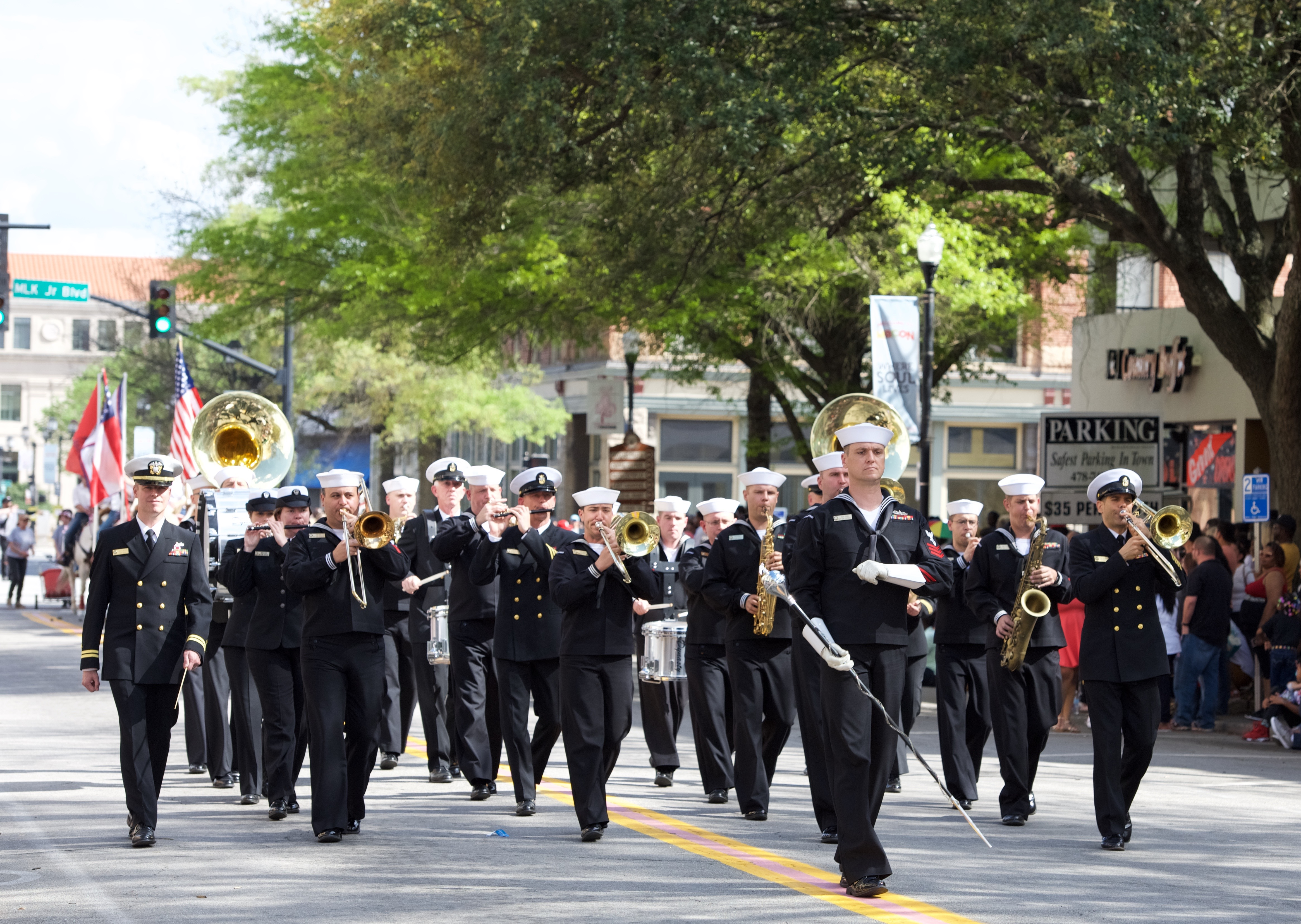 Navy Band Southeast's Parade Band, under the direction of Lieutenant Scott A. Mythen, and led by Drum Major, Musician 1st Class Trent Perrin march through the streets of Macon, Georgia during the city's annual Cherry Blossom Festival, Macon Georgia 2017. Navy bands directly contribute to the U.S. Navy's community outreach initiatives across the globe and connect Americans to their Navy.